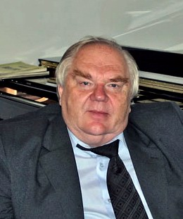 Anatoly Skripay - russian pianist, professor & rector of Saratov-konservatory